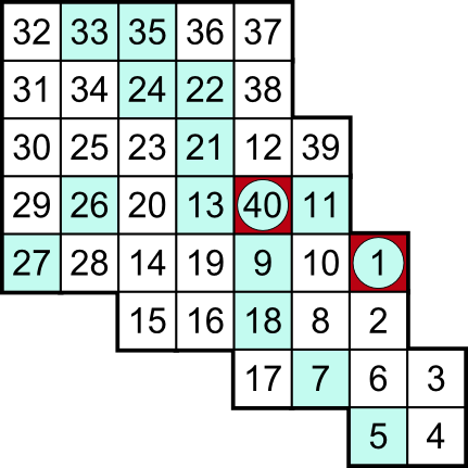 The solution of the Hidato puzzle in Hidato-puzzle.png.